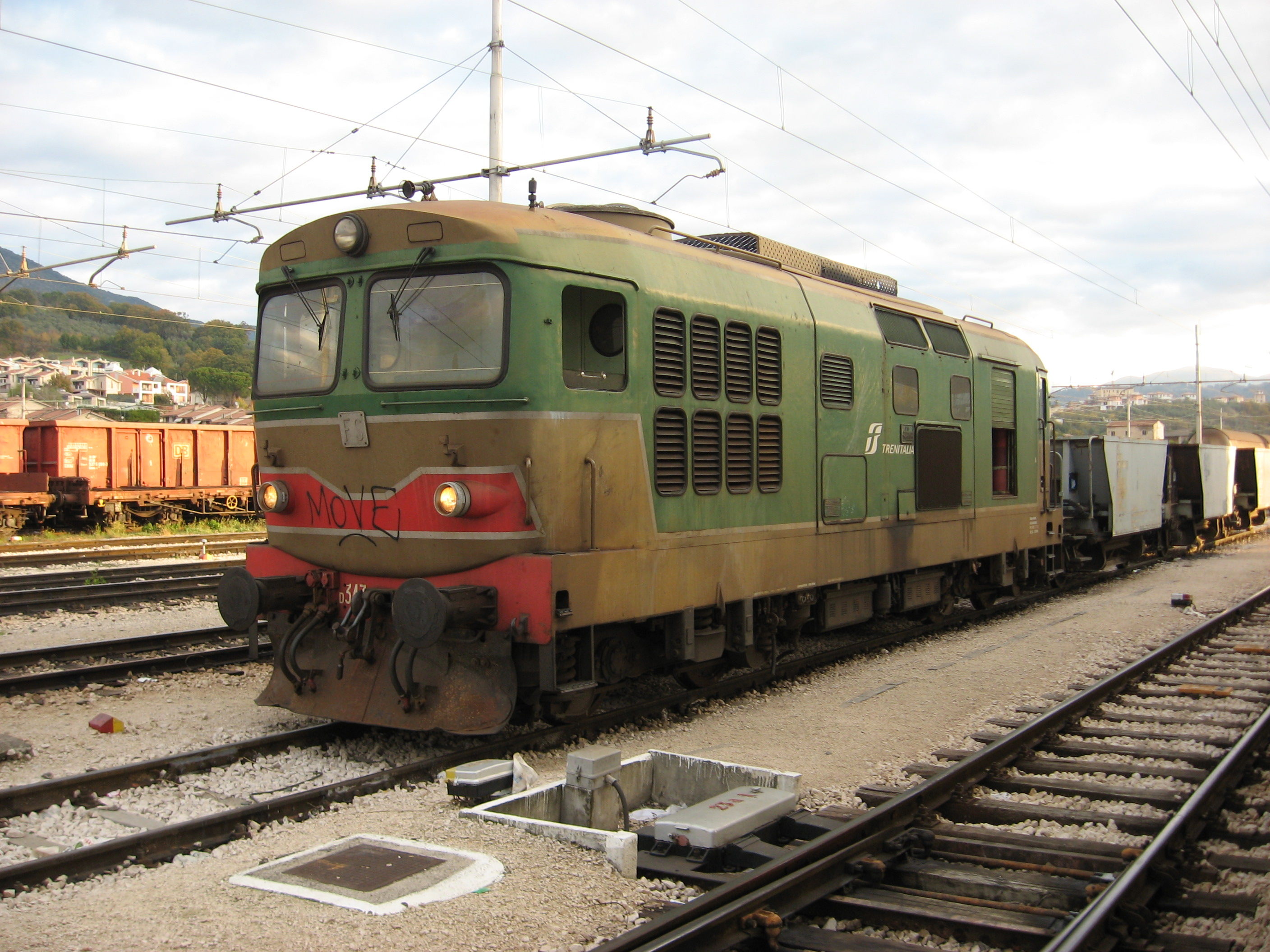 FS D.343.2003 service locomotive, Terni station, Italy